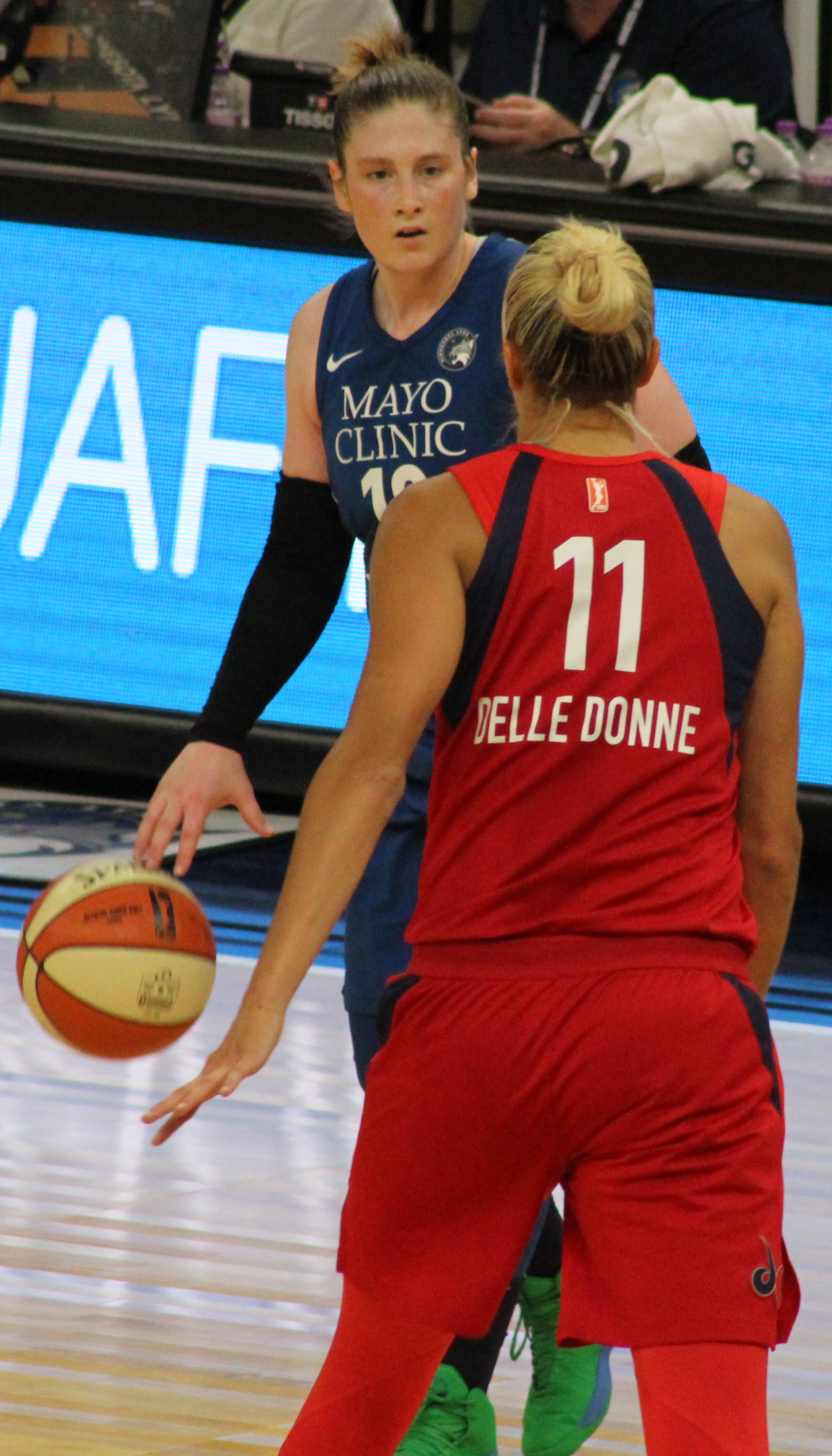 Lindsay Whalen of the Minnesota Lynx guarded by Elena Delle Donne of the Washington Mystics